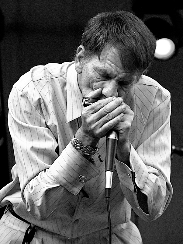 American blues slide guitar and harmonica player Watermelon Slim @ Pistoia Blues Festival 12/07/2008